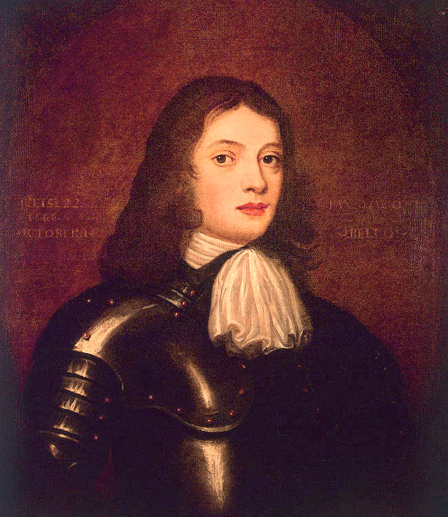 Oil on canvas portrait of William Penn at age 22 in 1666, portrayed in suit of armor